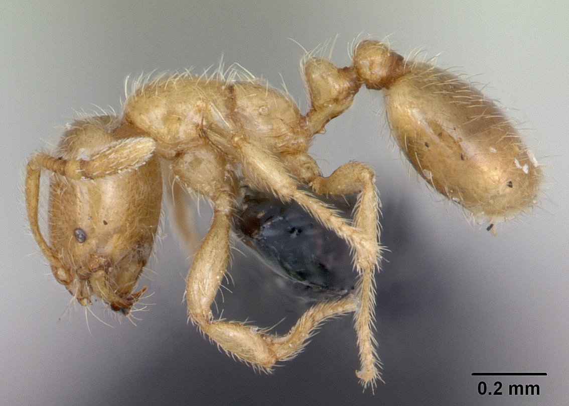 Profile view of ant Solenopsis fugax specimen casent0173147.